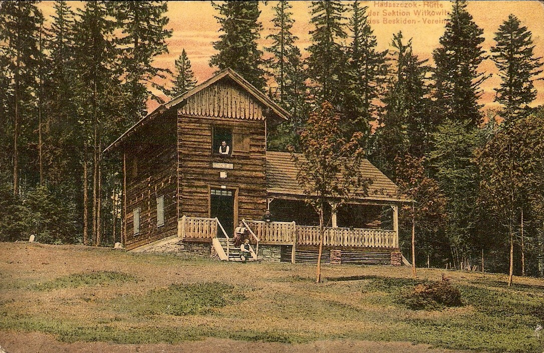 Old postcard from 1907 - mountain hut Hadaszczok - Hütte in Moravian-Silesian Beskids